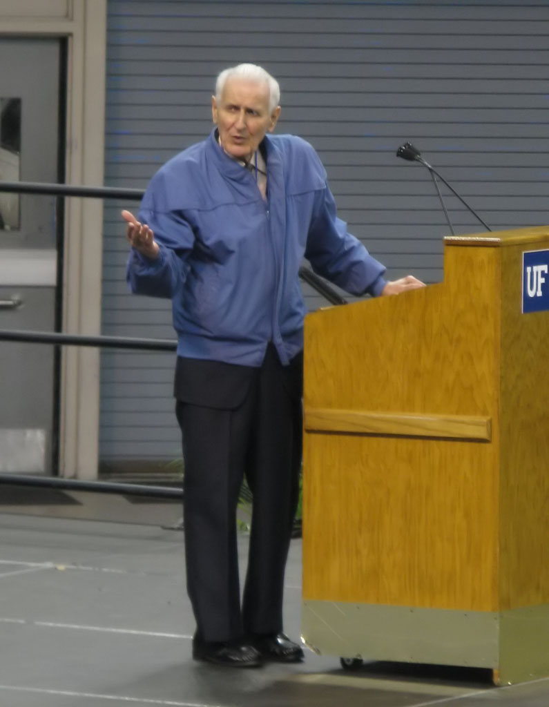 Dr. Jack Kevorkian, best known for his advocacy for assisted suicide